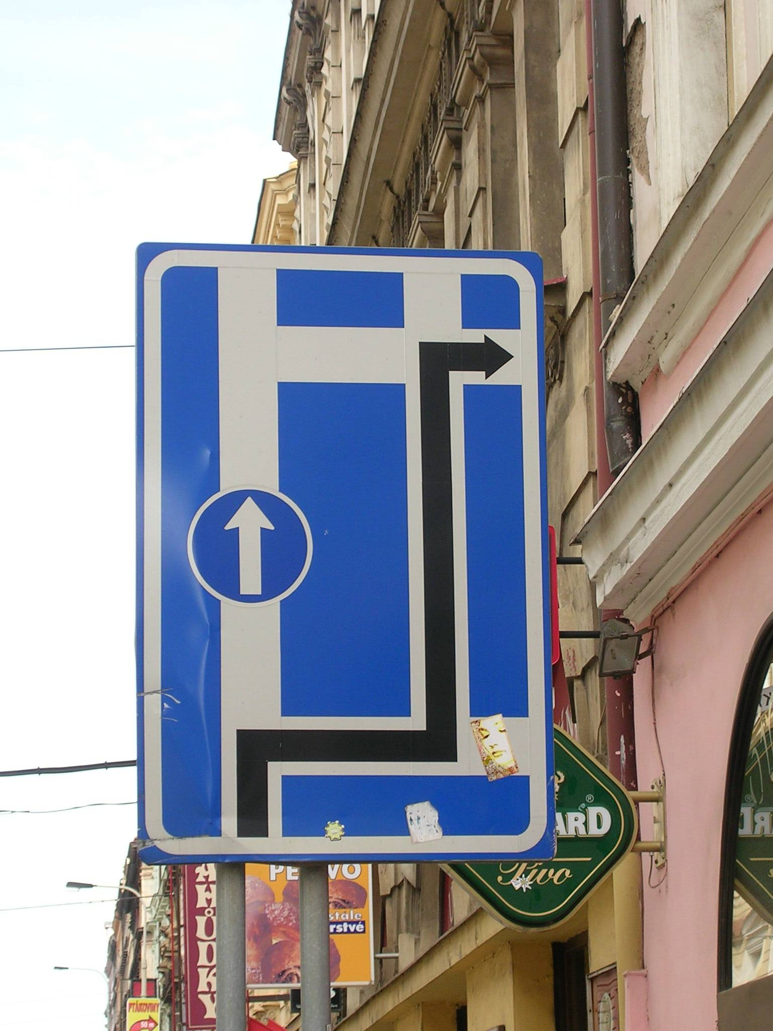 Tram sign. Prague.